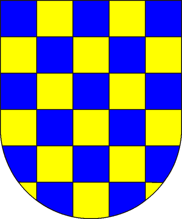 coats of arms of the count of Vorder-Sponheim